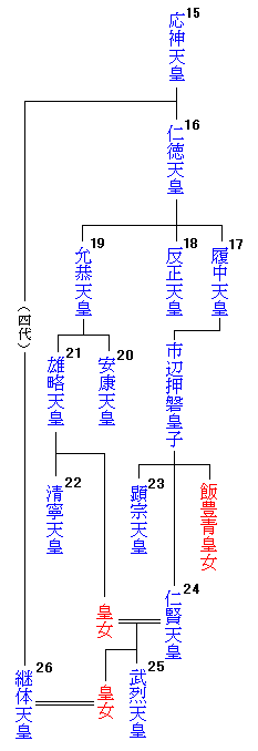 Family tree of the emperor of Japan, from 15th to 26th 天皇家系図 15代～26代